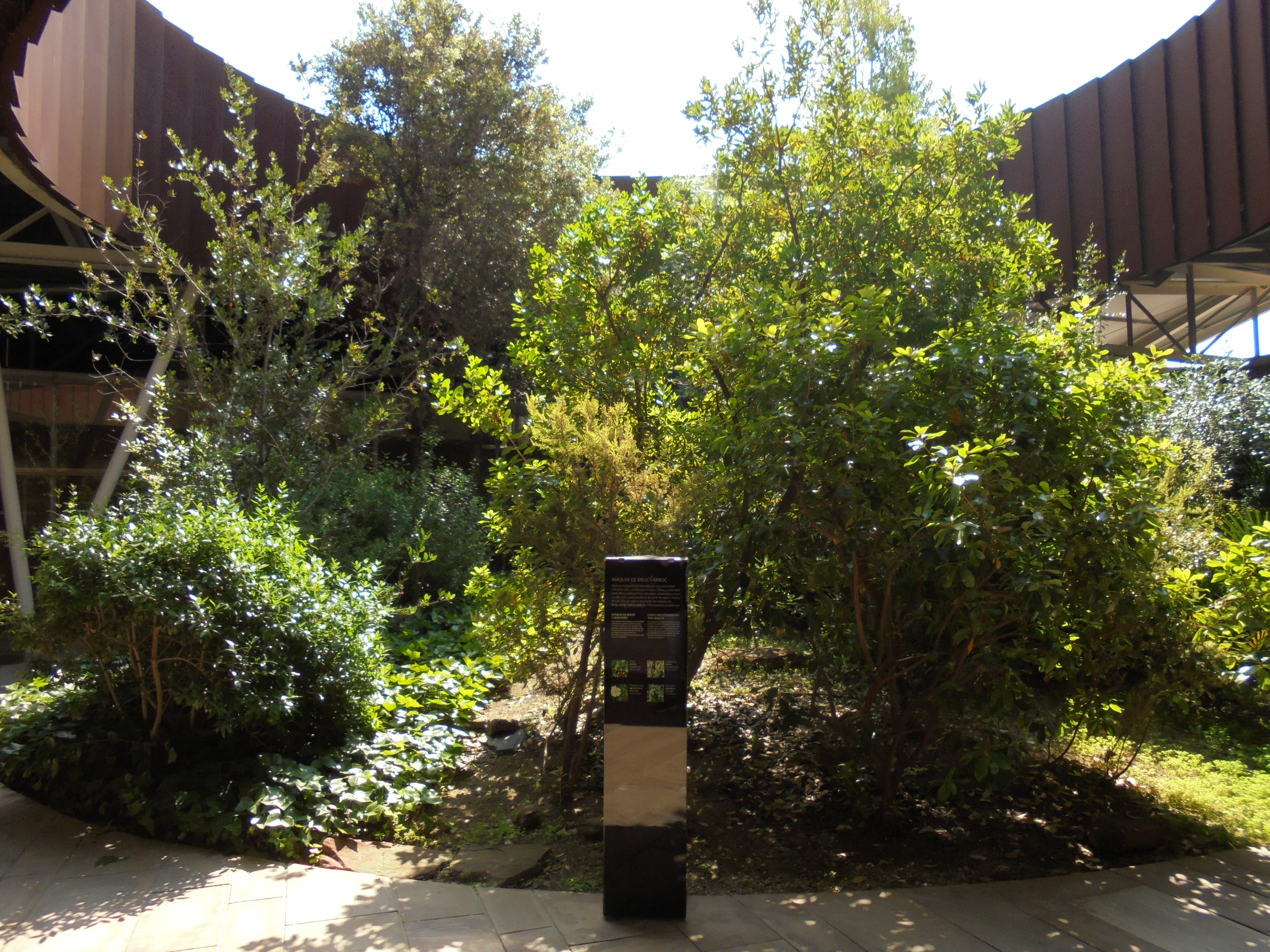 Details Garden Neolithic where vegetation known by botanists remains found in the mines is observed.